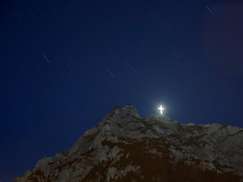 Crucea Eroilor - Valea Prahovei 2012